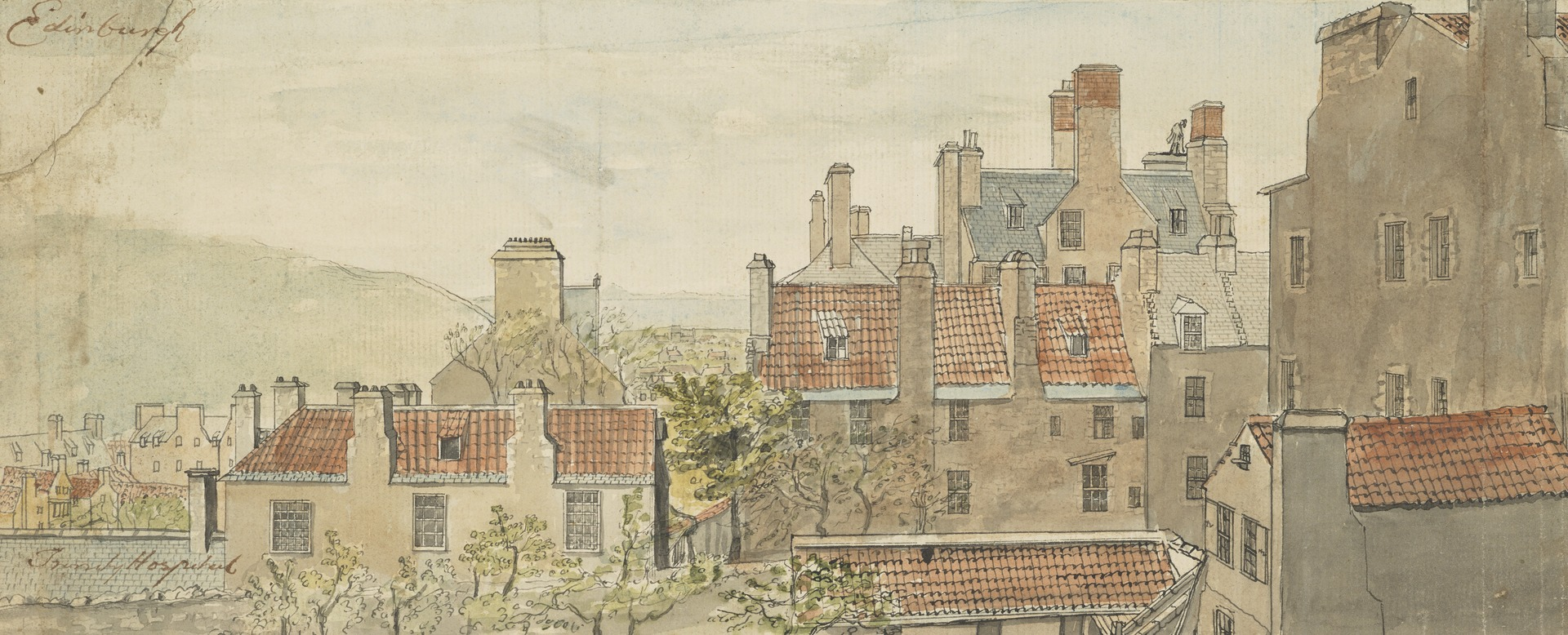 Trinity Hospital, Edinburgh William Finlay Watson Bequest 1881